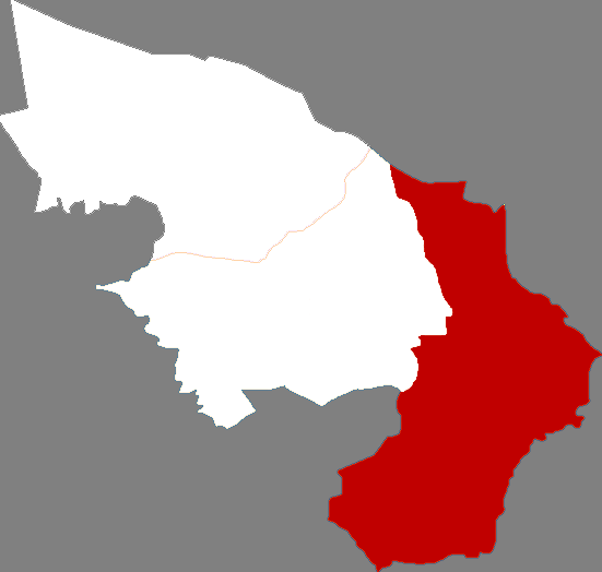 Locator map of Left Banner in Alxa League, Inner Mongolia, China